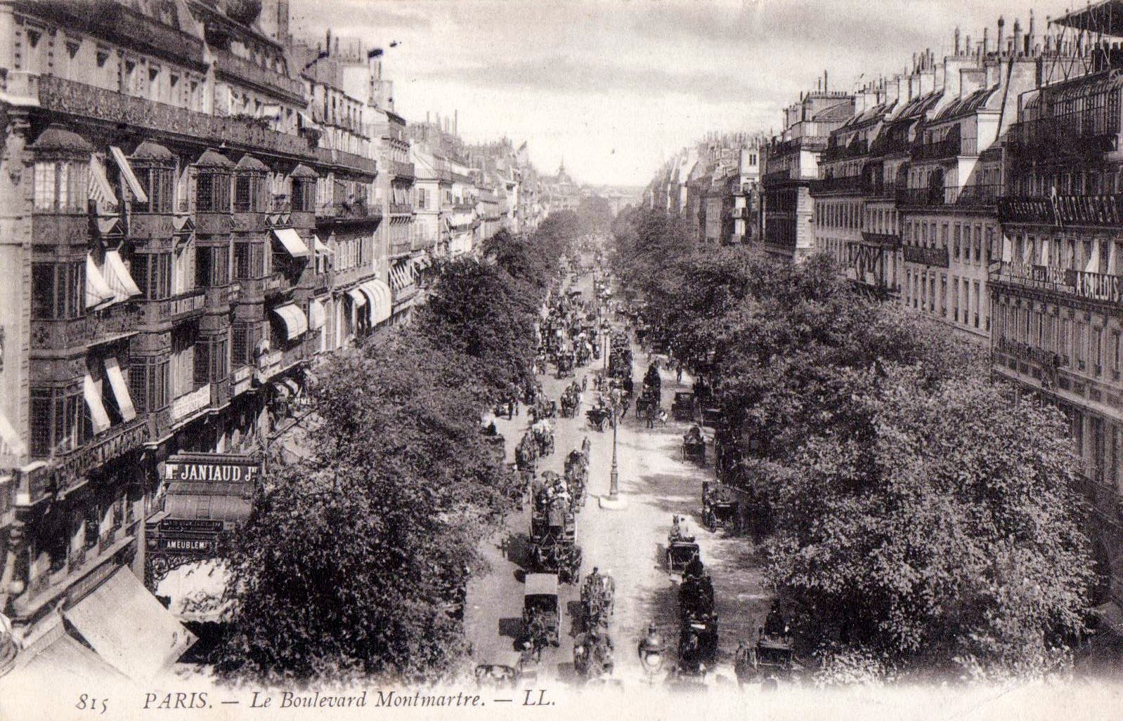 Paris. Boulevard Montmartre. Postcard from 1906. Publisher: Lucien Levy & Sons. Paris.